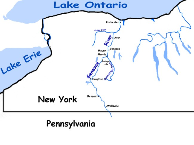 Genesee River map: large